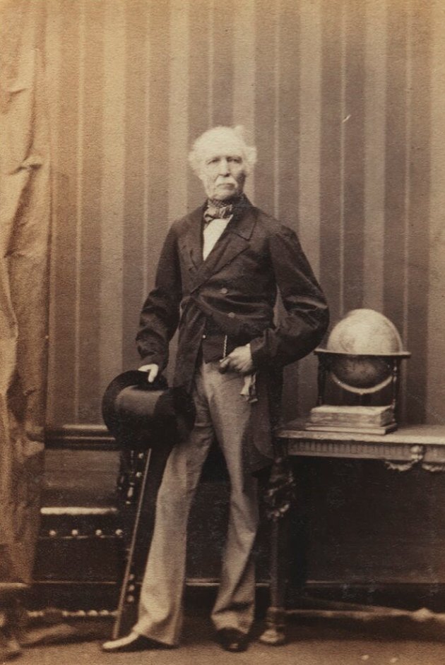 Portrait of James Maxwell Wallace (1783–1867), British Army officer.